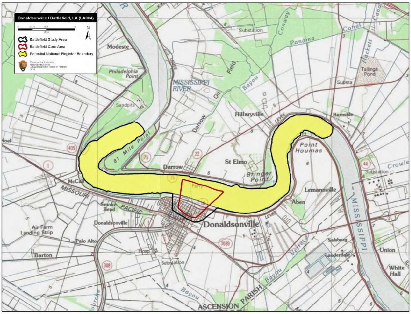 Map of battlefield core and study areas. The revised Study Area illustrates the Federal squadron’s movements north of Donaldsonville as it prepared to shell the town, and the squadron’s subsequent movement away from the town. The Core Area was widened slightly to accommodate the size of the flotilla.